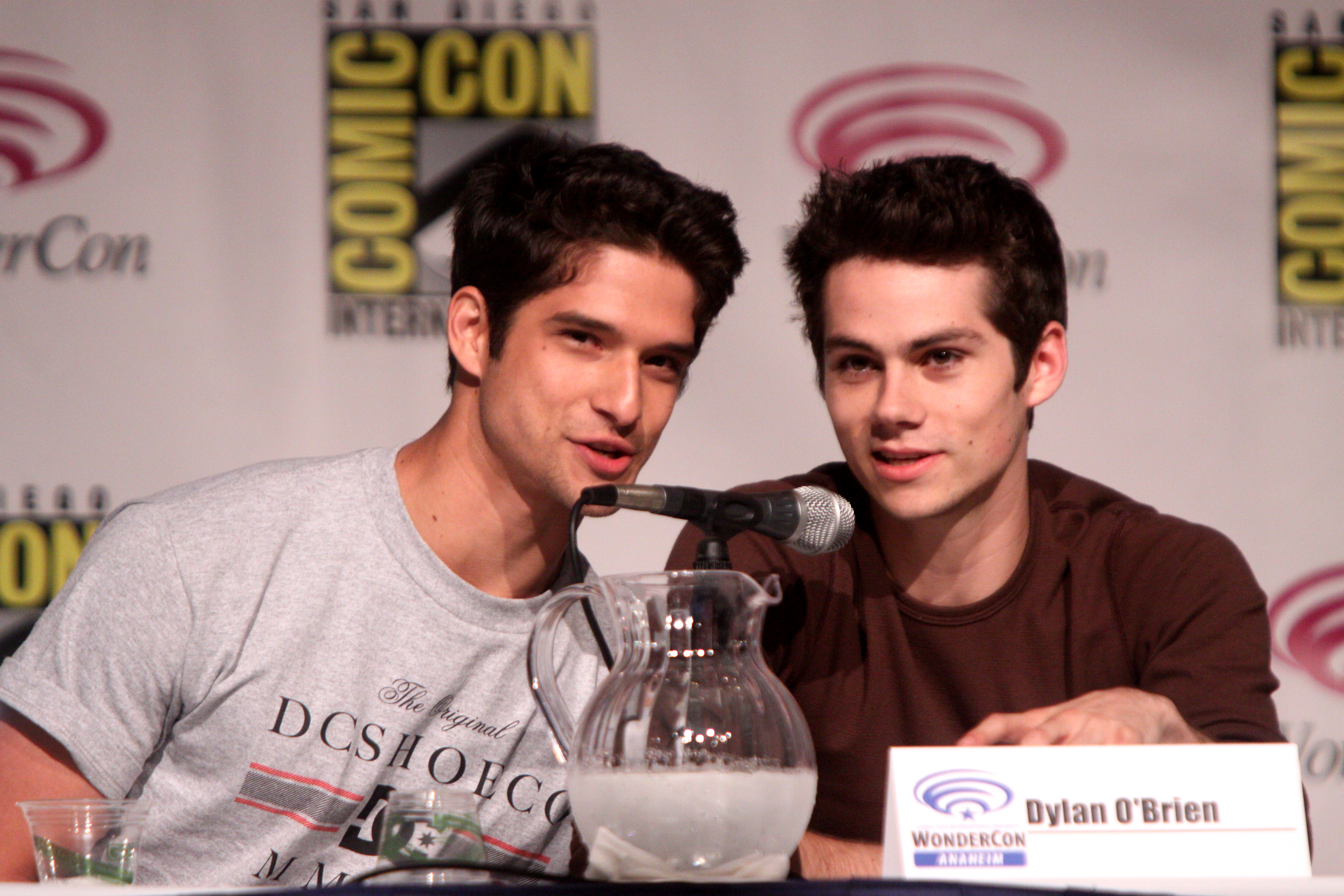 Tyler Posey & Dylan O'Brien speaking at the 2013 WonderCon at the Anaheim Convention Center in Anaheim, California.